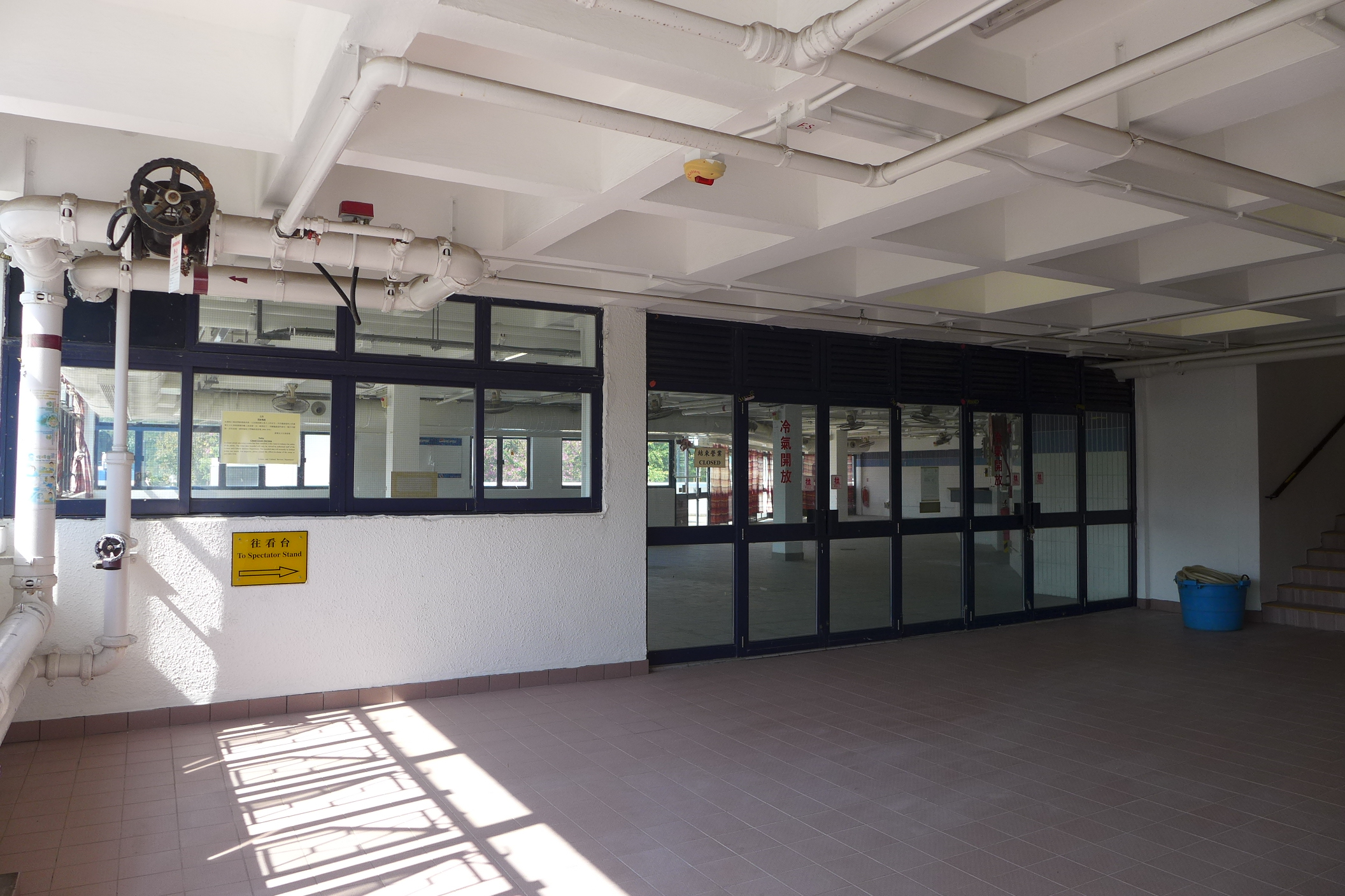 Tuen Mun Swimming Pool Vacant Restaurant